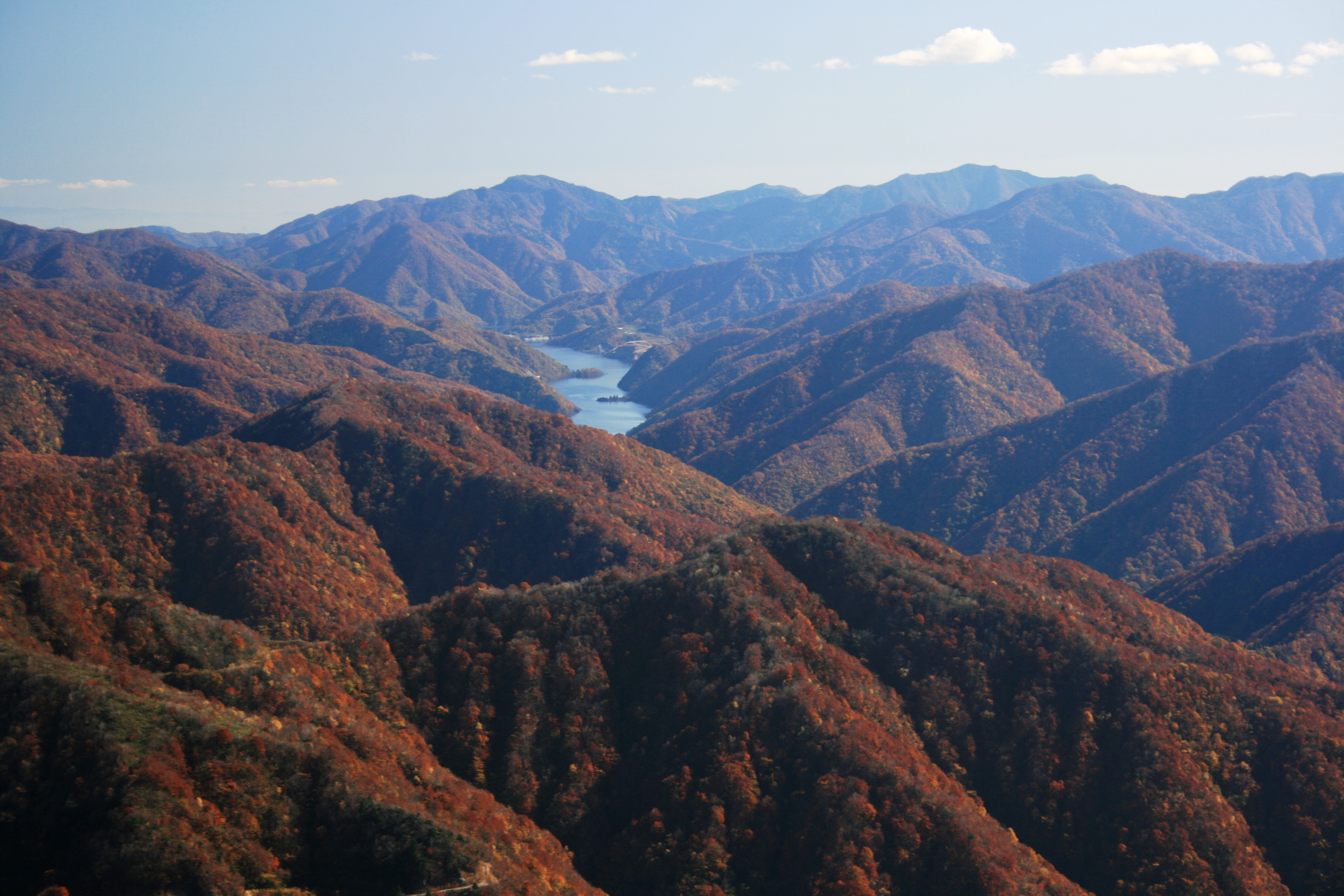 Tokuyama Dam and Kaminarikura seen from Mount Kanakusa, in Ibigawa, Gifu prefecture, Japan.